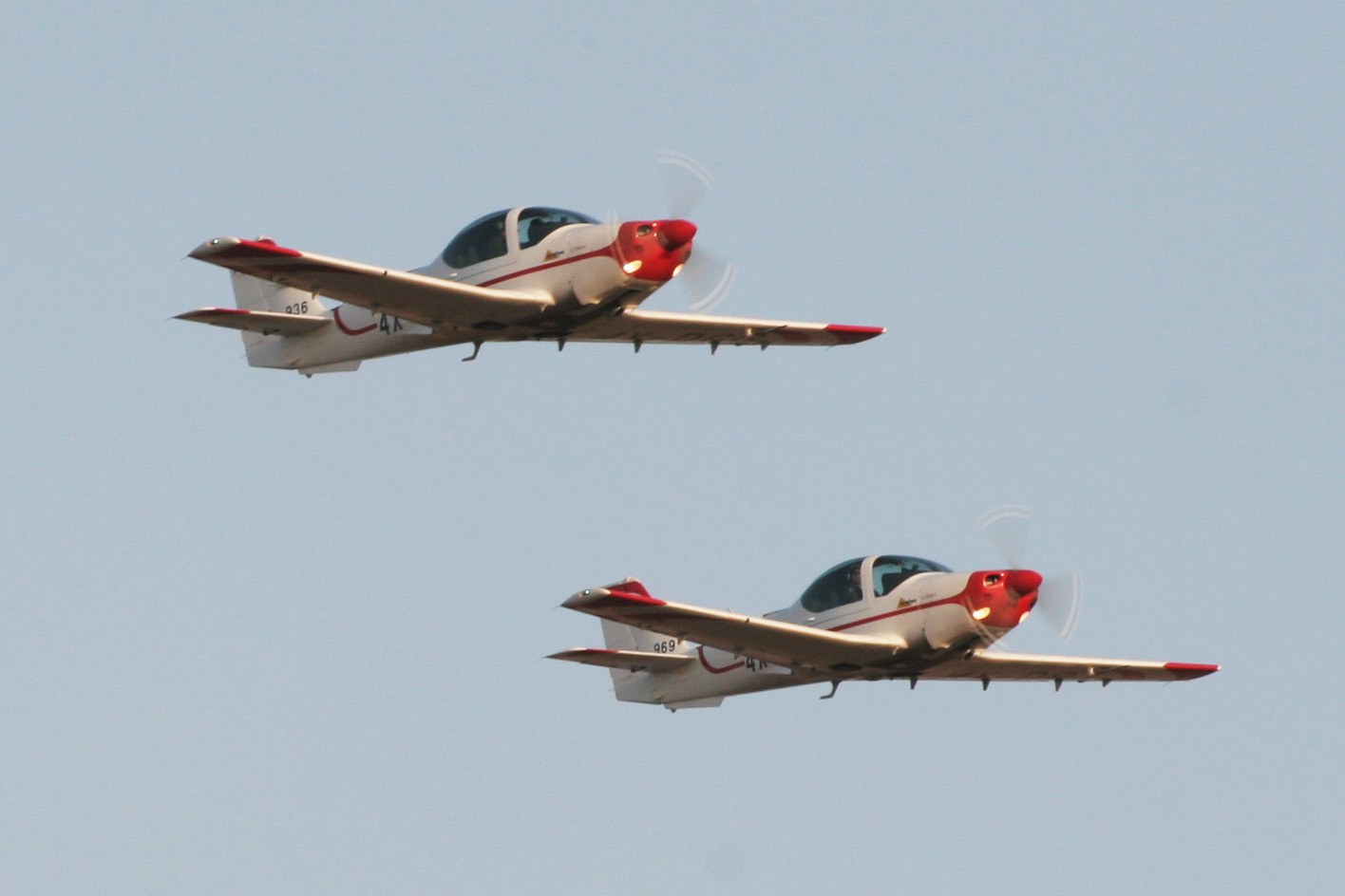 IAF Grob G-120A "Snunit", at IAF cadet graduation ceremony, #154